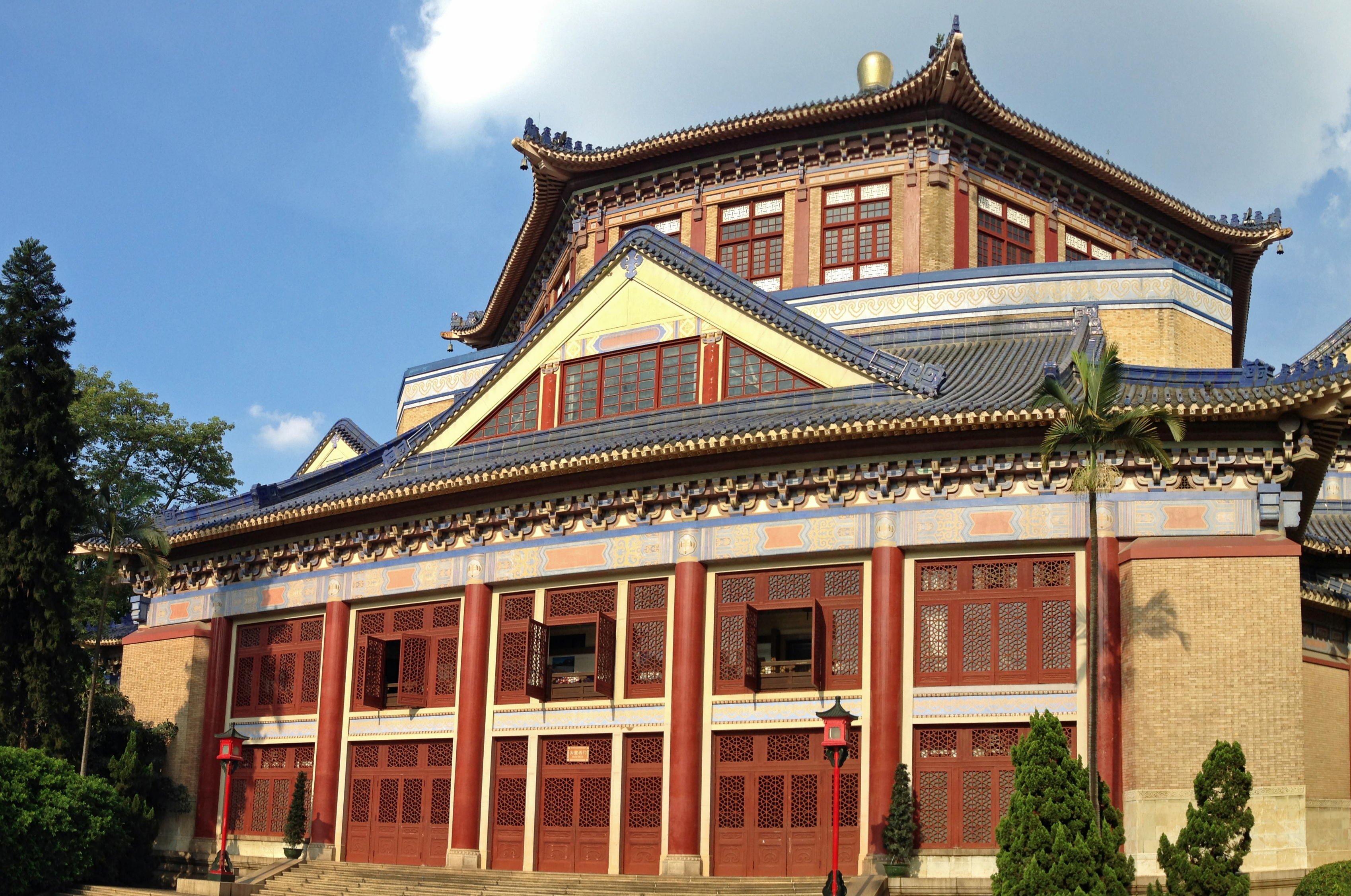 The Sun Yat-sen Memorial Hall in Guangzhou in August 2013.